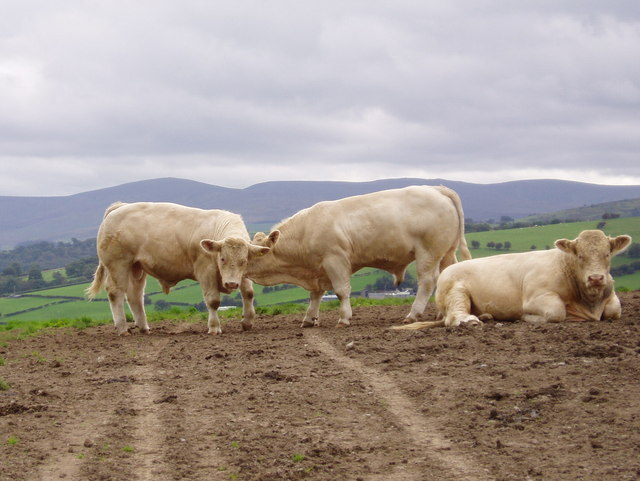 Beef cattle. Charolais steers at a farm near Dinmael.